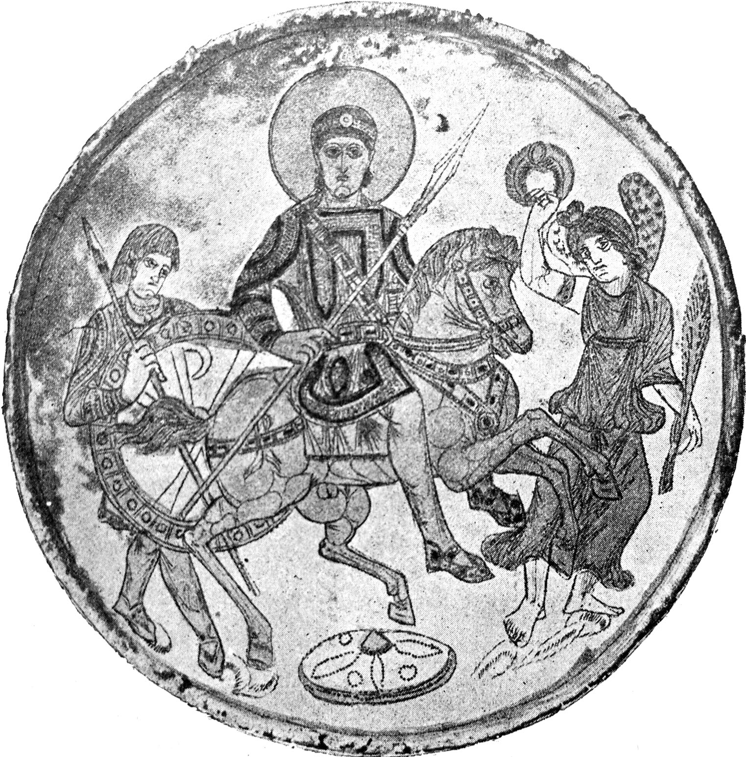 Kerch Missorium representing the Late Roman emperor Constantius II. Photograph taken from Ludwig von Sybel, Christliche Antike, vol. 2, Marburg, 1909.